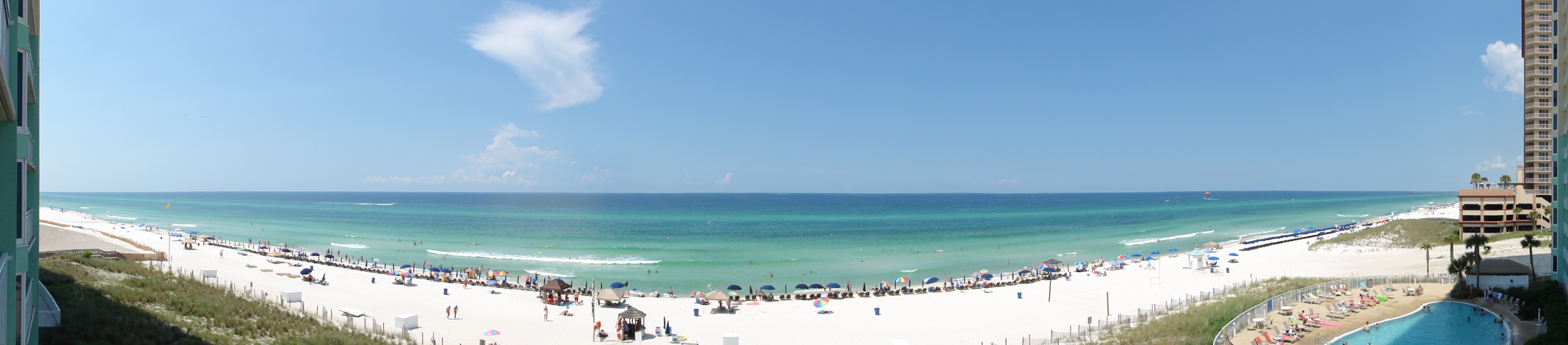 Beach panorama, Panama City Beach, Florida.